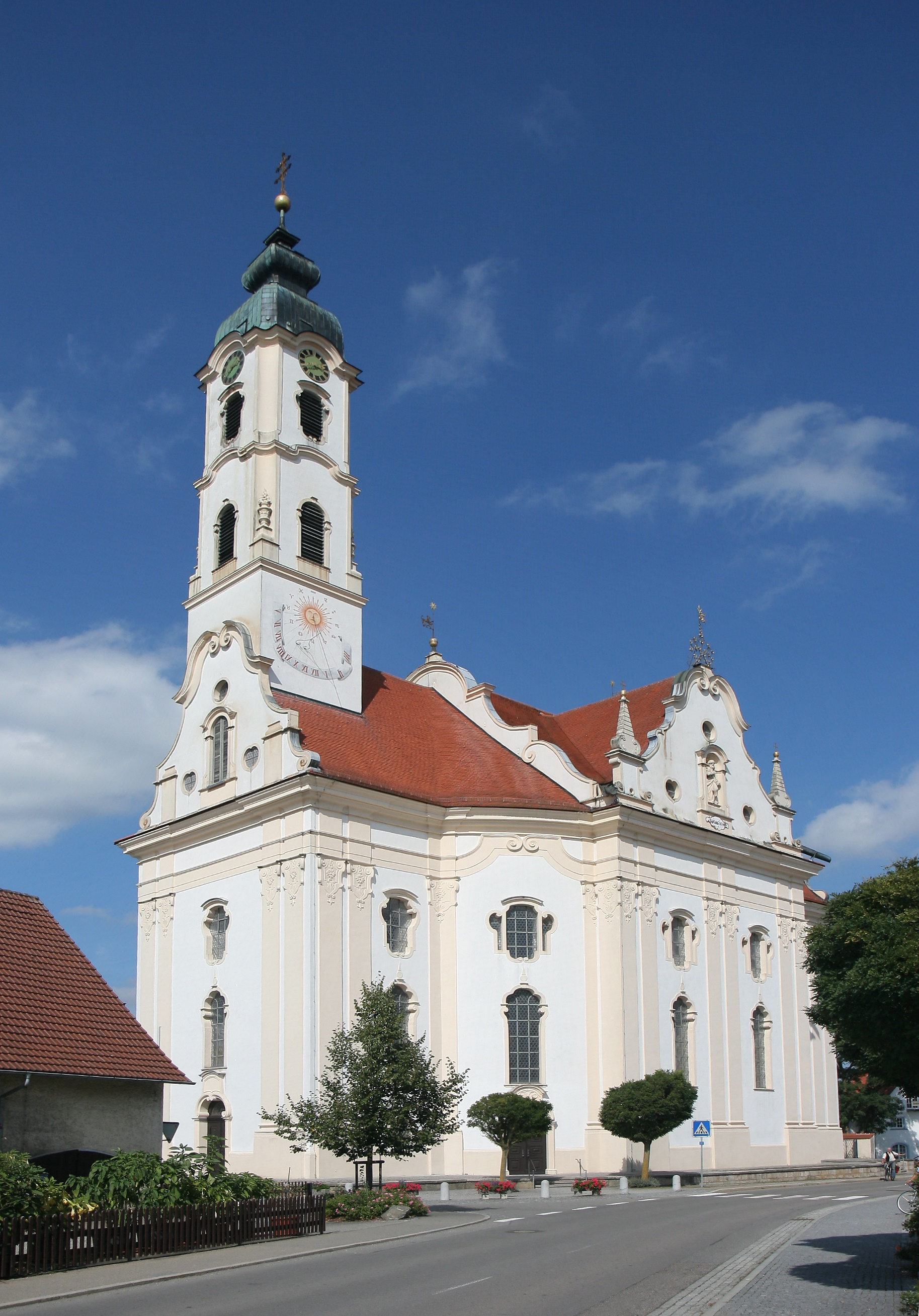 Pilgrimage Church of Our Lady and Parish Church of St. Peter and Paul in Bad Schussenried-Steinhausen. Built in 1728-1731.